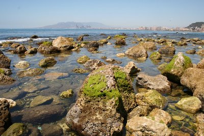 Rocky beach at Baños del Carmen, Málaga